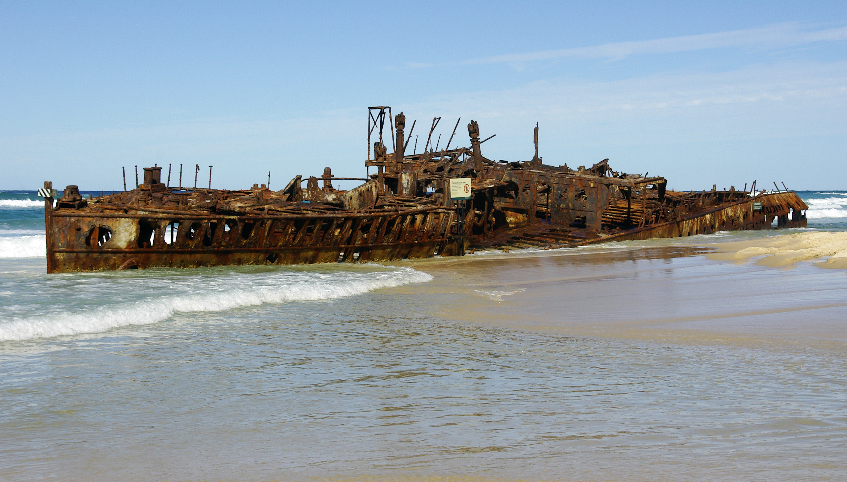 The S.S. Maheno on Fraser Island, Queensland, Australia.